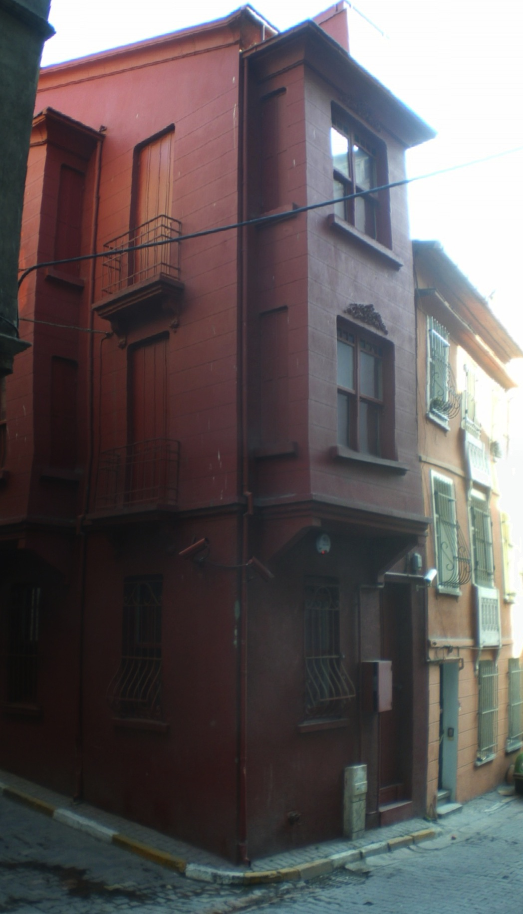 The building of the Museum of Innocence in Çukurcuma, Istanbul